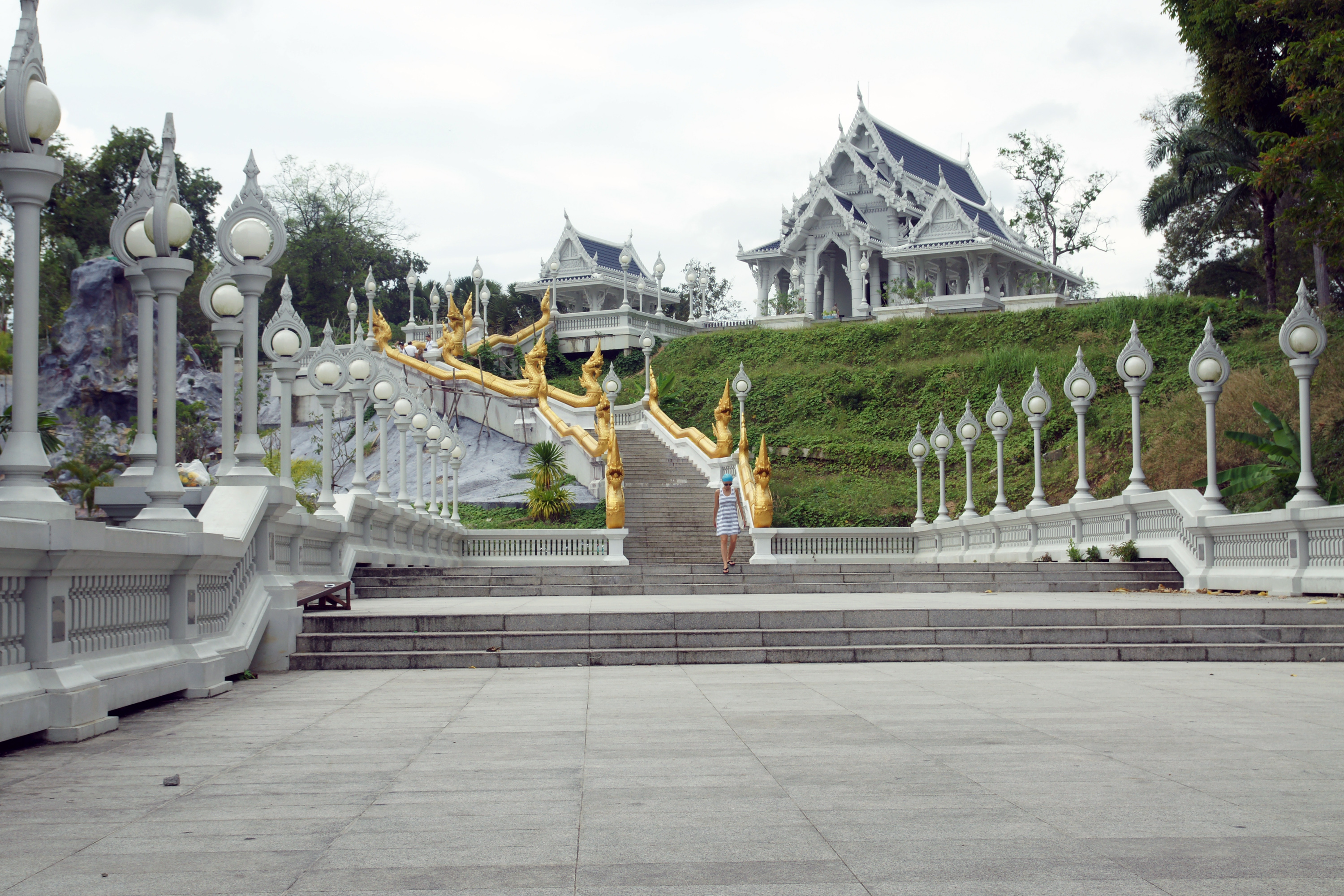 Kaewkorawaram temple in Krabi Town, Krabi, Thailand.